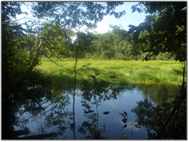 Interior Stream